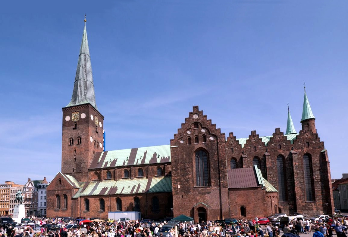 Århus Katedral